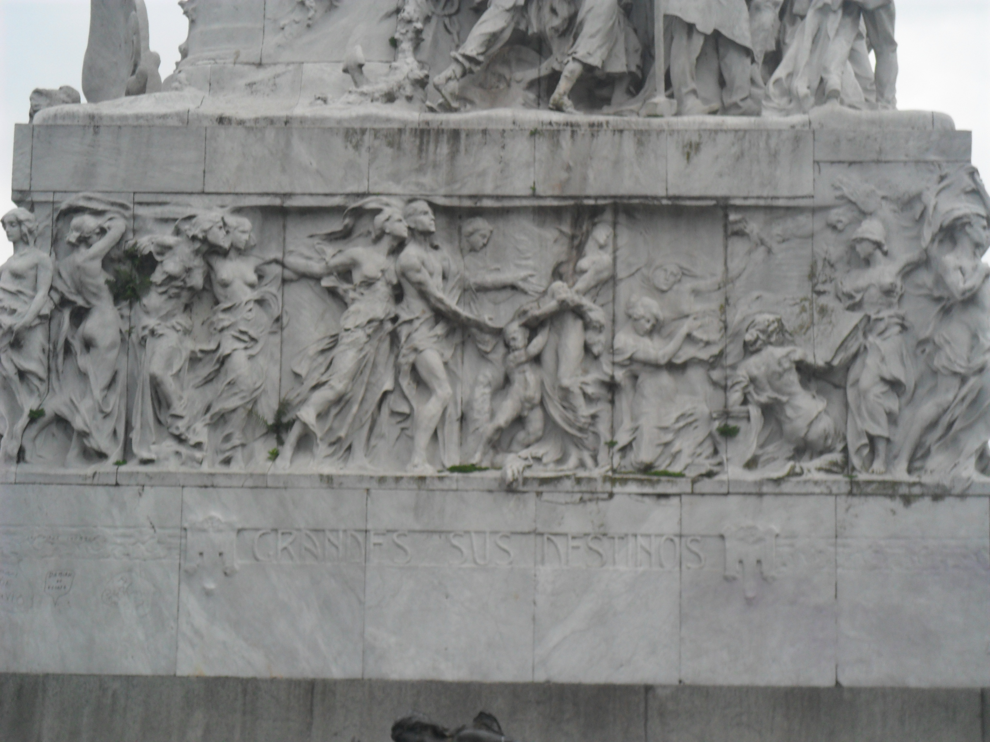 Detail of the Magna Carta Memorial located in Palermo, Buenos Aires, Argentina